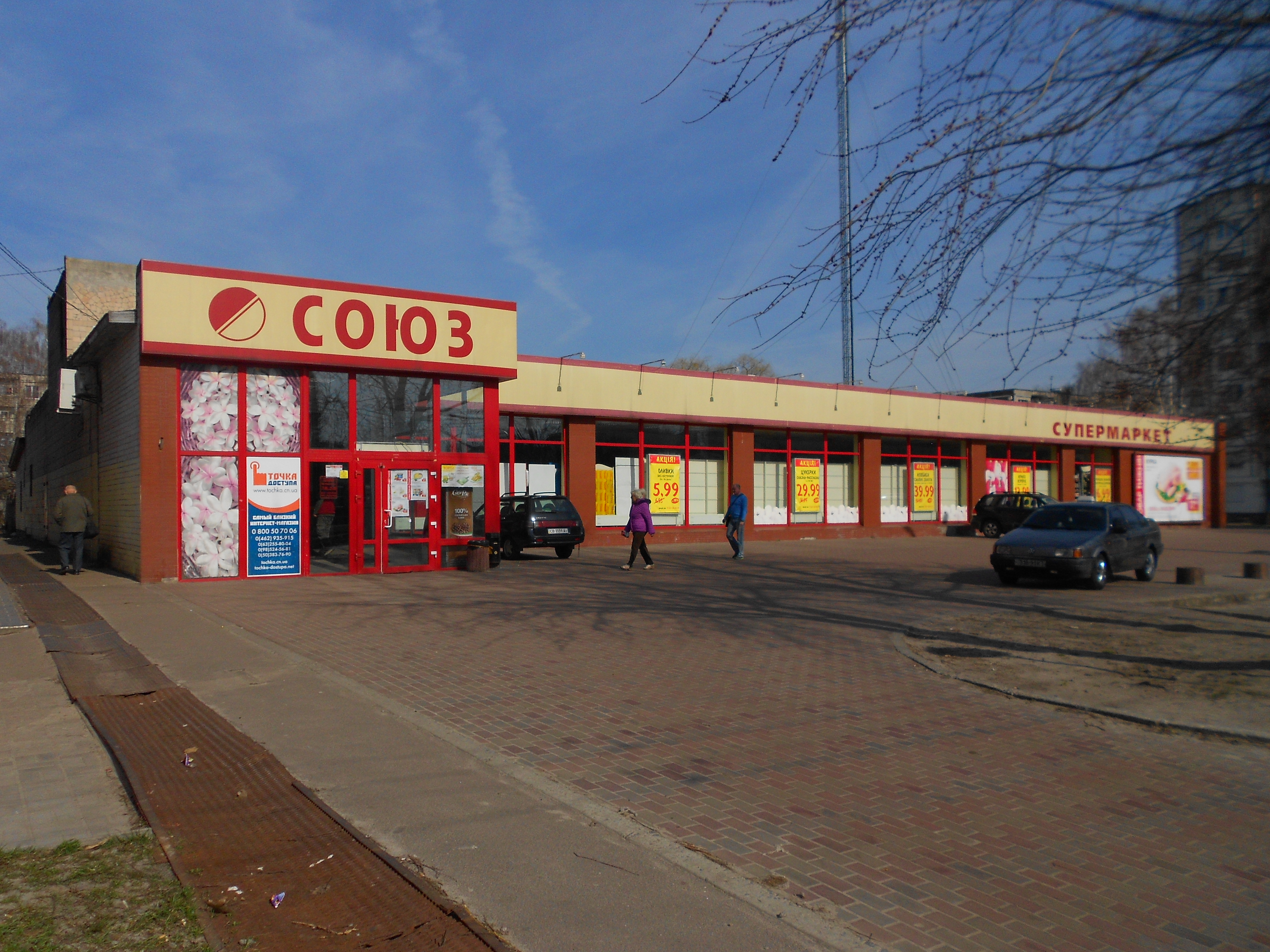 supermarket "Soyuz", #29 Dotsenko Street, Chernihiv, Ukraine